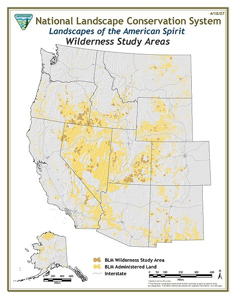 Map of BLM—Bureau of Land Management Wilderness Study Areas — in the Western United States.